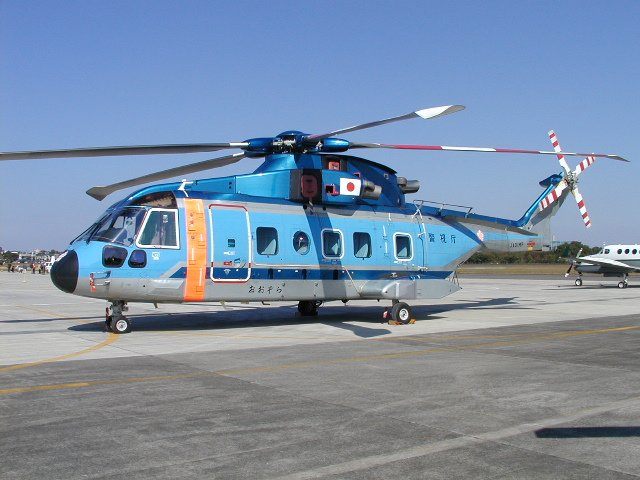 Tokio police EH101